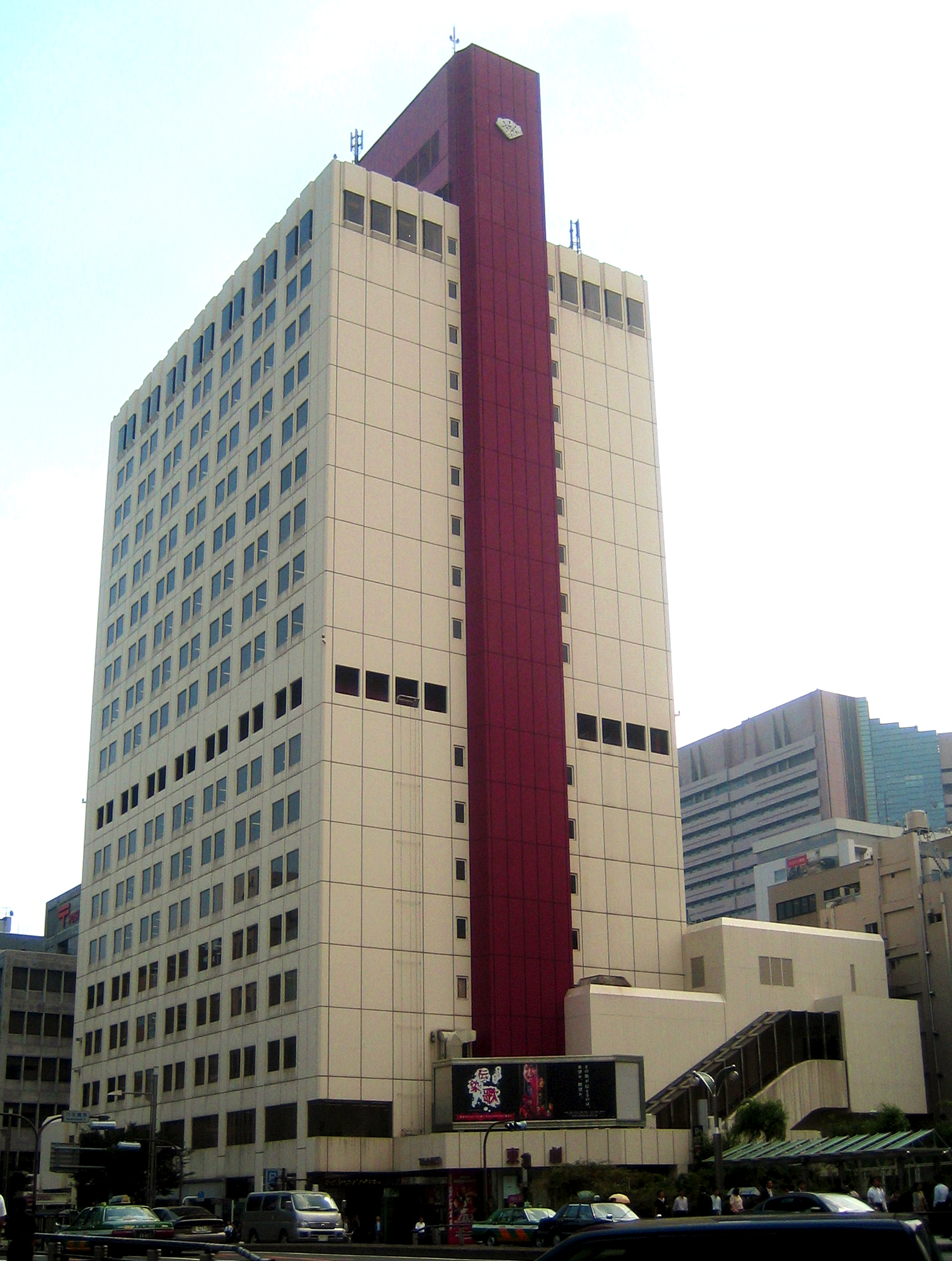 The headquarters of Shochiku Co.,Ltd., at Tsukiji, Chuo, Tokyo, Japan